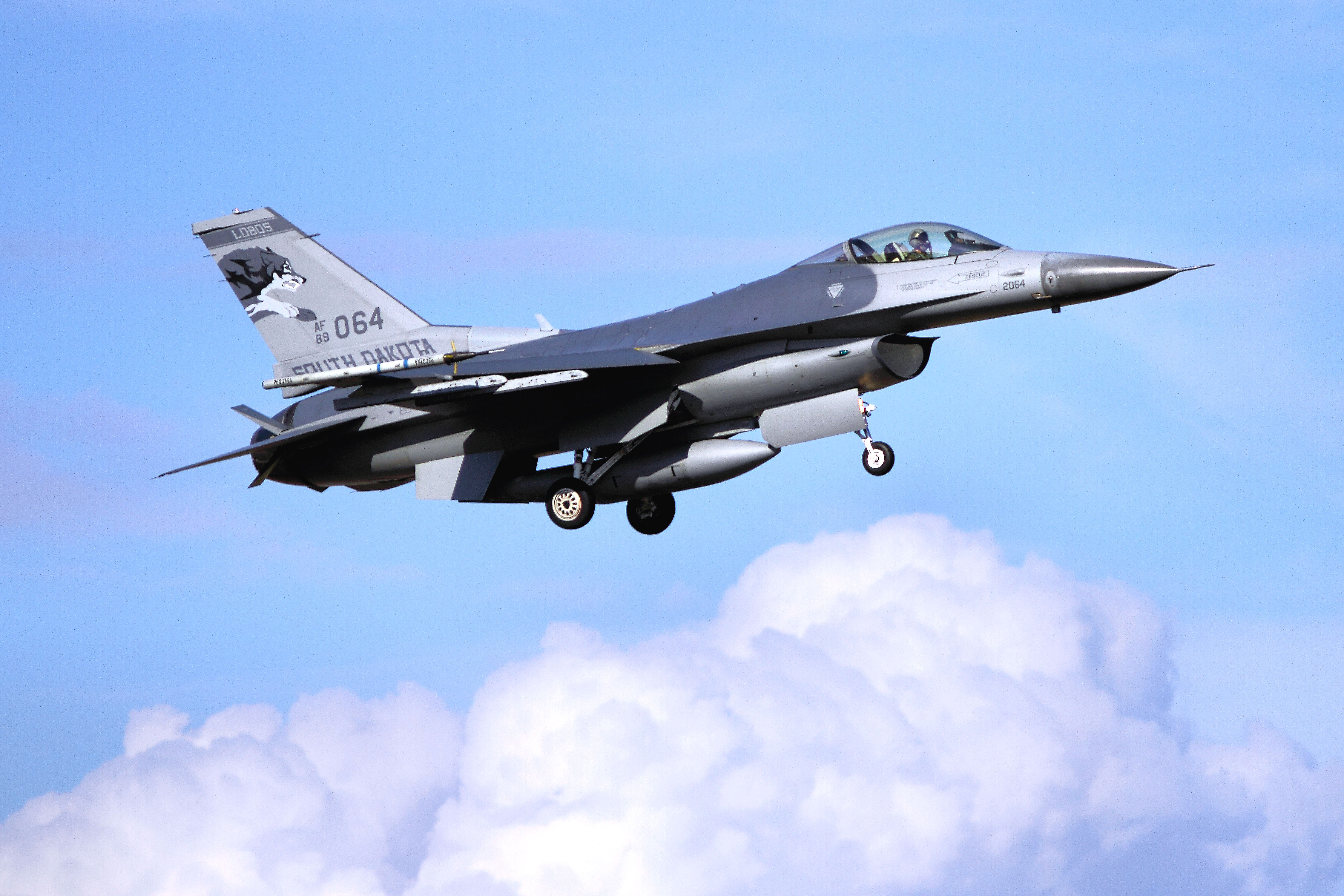 TYNDALL AFB, Fla. - A 114th Fighter Wing, South Dakota Air National Guard F-16 aircraft approaches for a landing at Tyndall Air Force Base, Fla. Feb. 1, 2012. The unit is in Florida to participate in Combat Archer for a two week deployment. The exercise allows pilots and crew of the unit to train and be evaluated with live munitions.